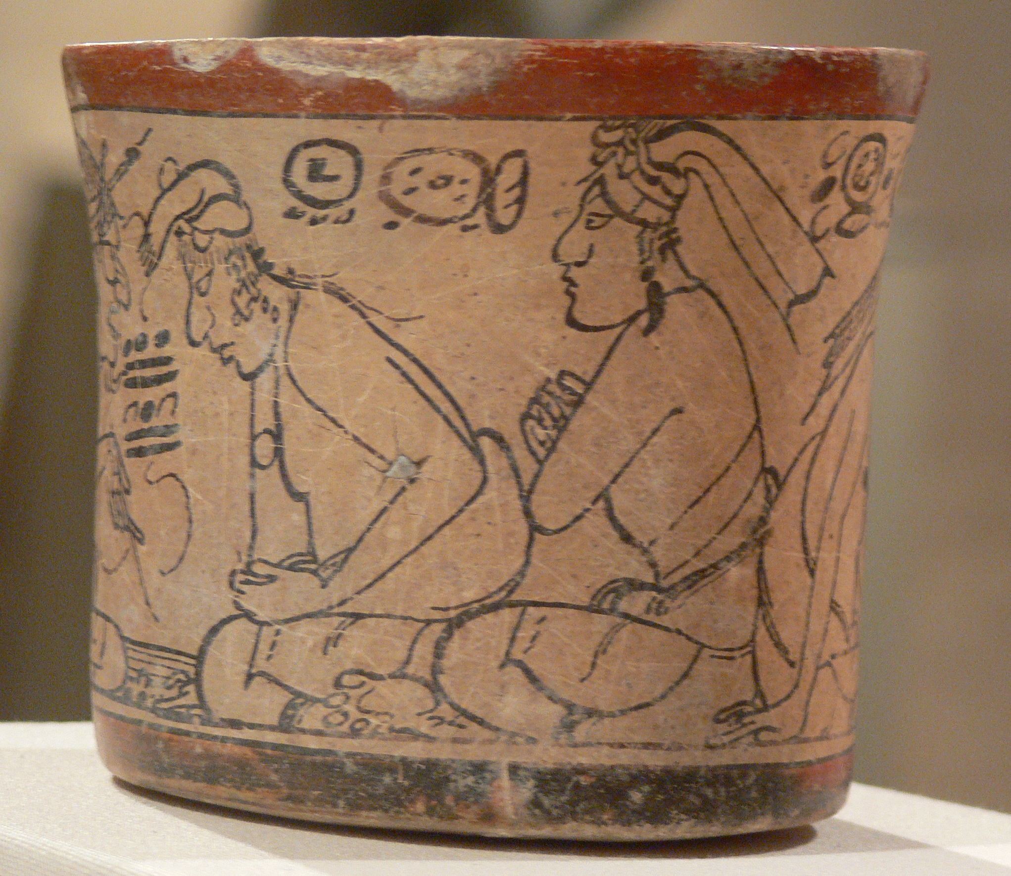 Codex-Style Vessel with Two Scenes of Pawahtun Instructing Scribes; c. A.D. 550–950; Possibly Mexico or Guatemala, Maya culture, Late Classic period (A.D. 600–900); Ceramic with monochrome decoration; height 8.9 cm Kimbell Art Museum, Fort Worth, Texas; AP 2004.04